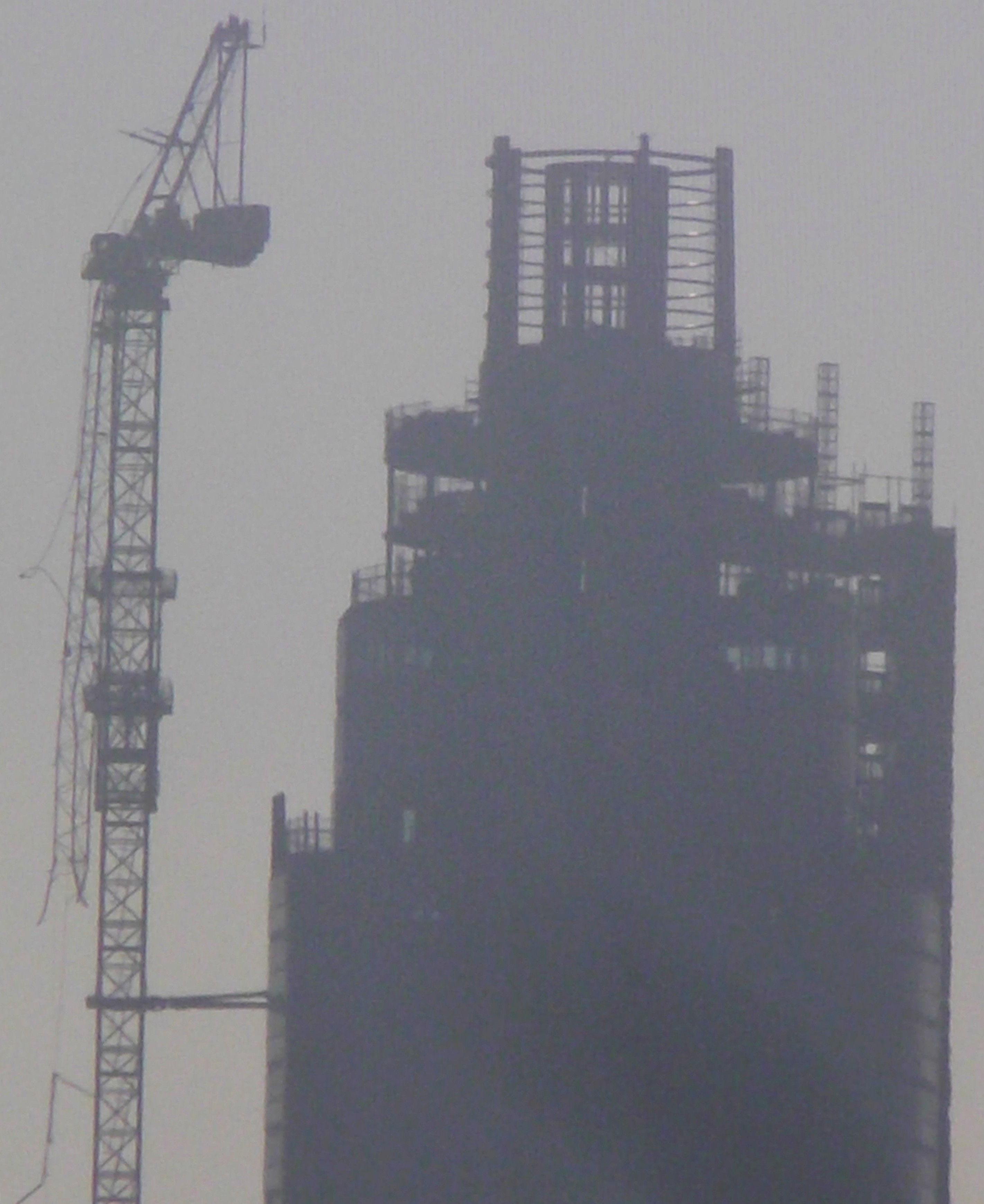 St George Wharf Tower, London and its construction crane seen on 16 January 2013 after damage to the jib of the crane from a helicopter crash.